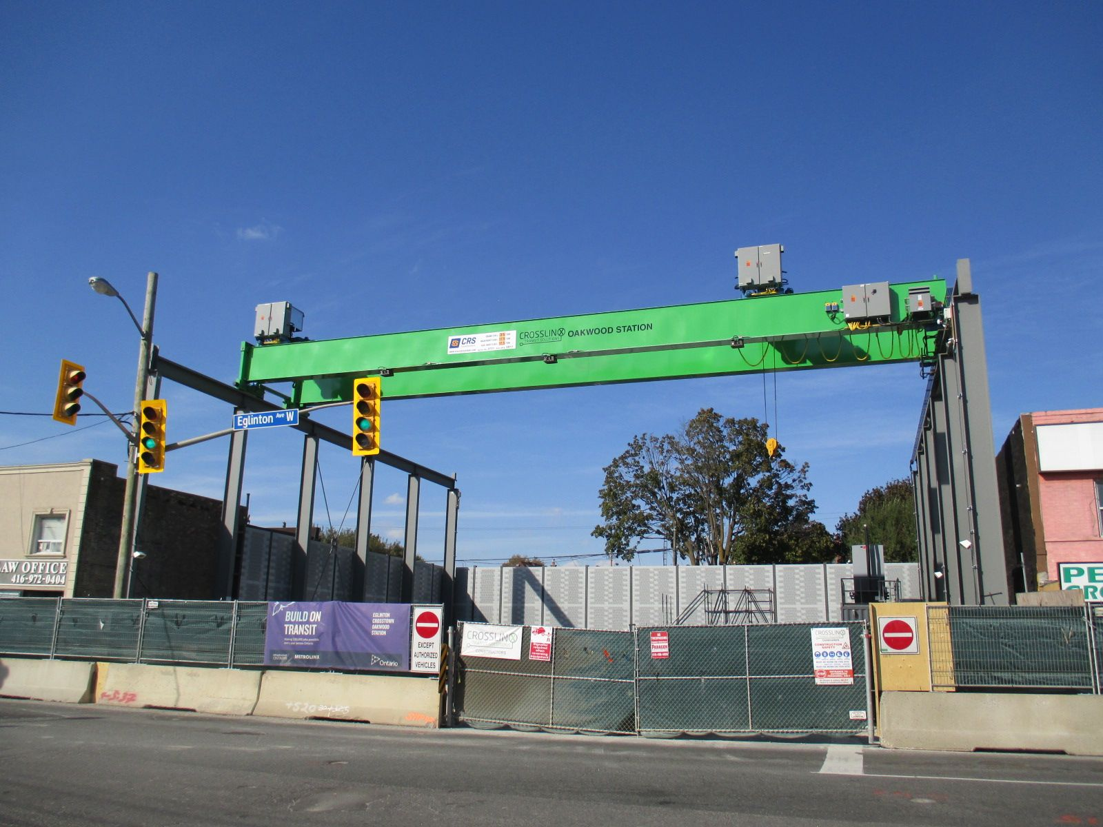 Overhead crane at the site of main entrance to Oakwood station, under construction in Toronto